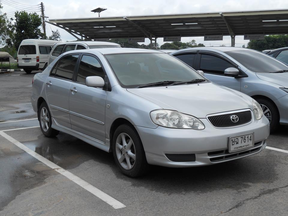 2001 Toyota Corolla Altis 1.6E in Khon Kaen University, Khon Kaen, Thailand.